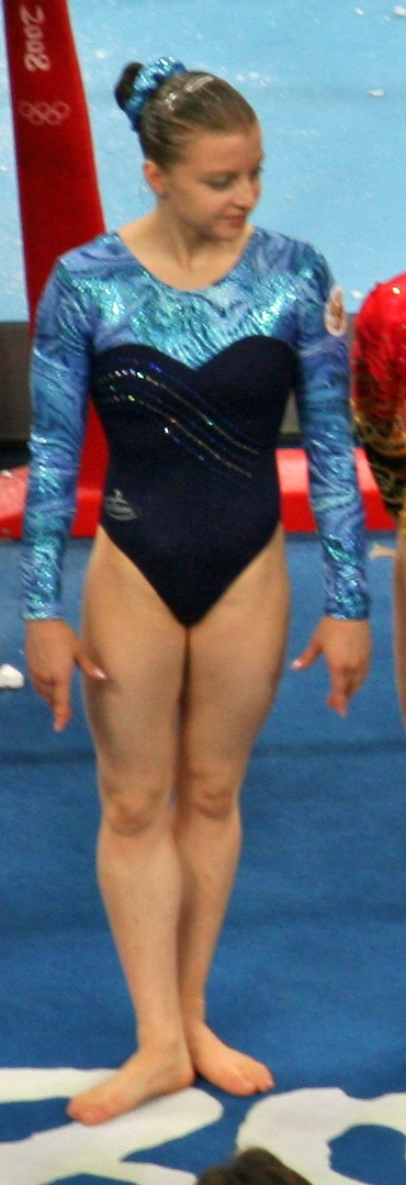 Anna Pavlova at the 2008 Summer Olympics